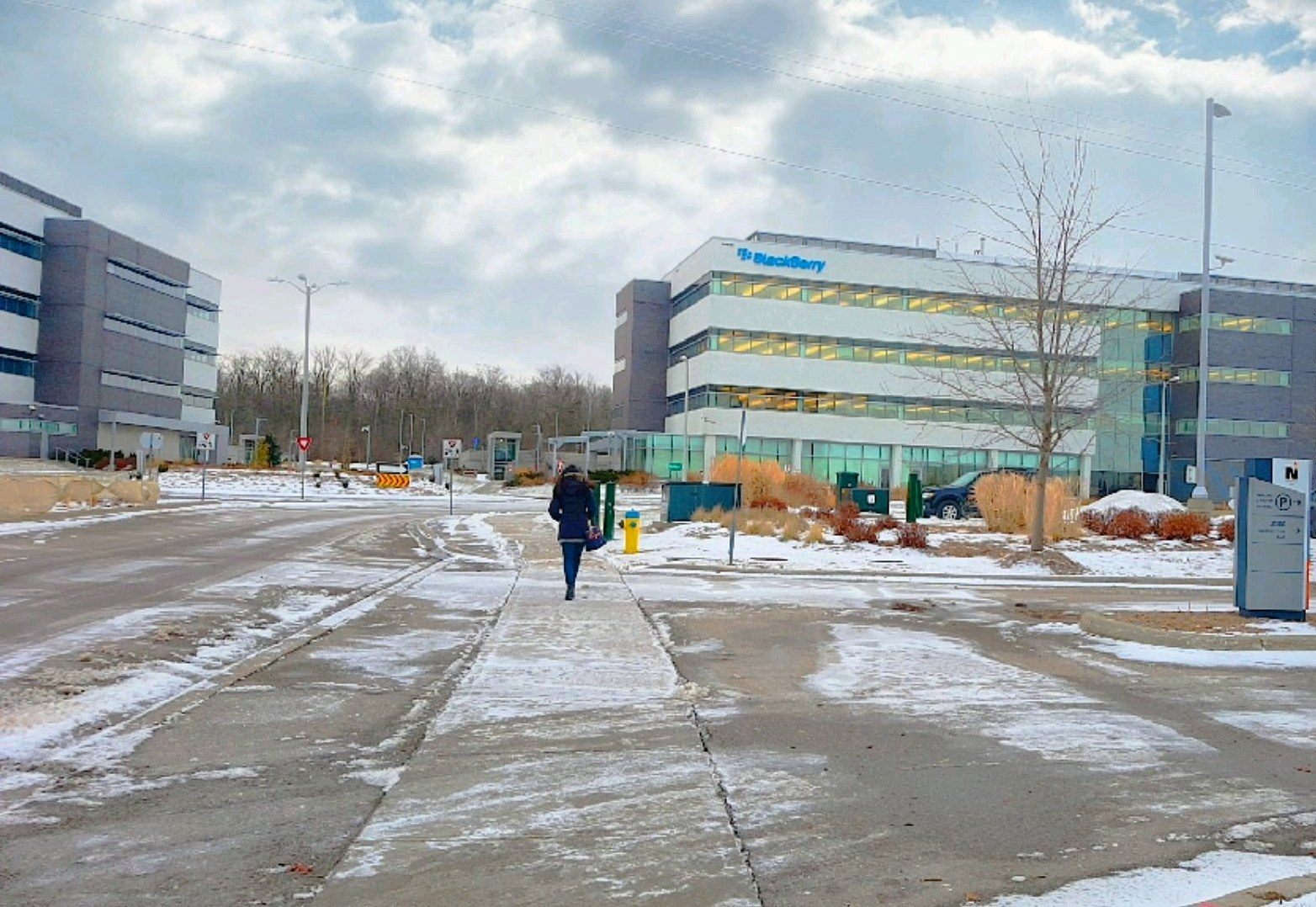 BlackBerry Limited Headquarters, Waterloo, Canada